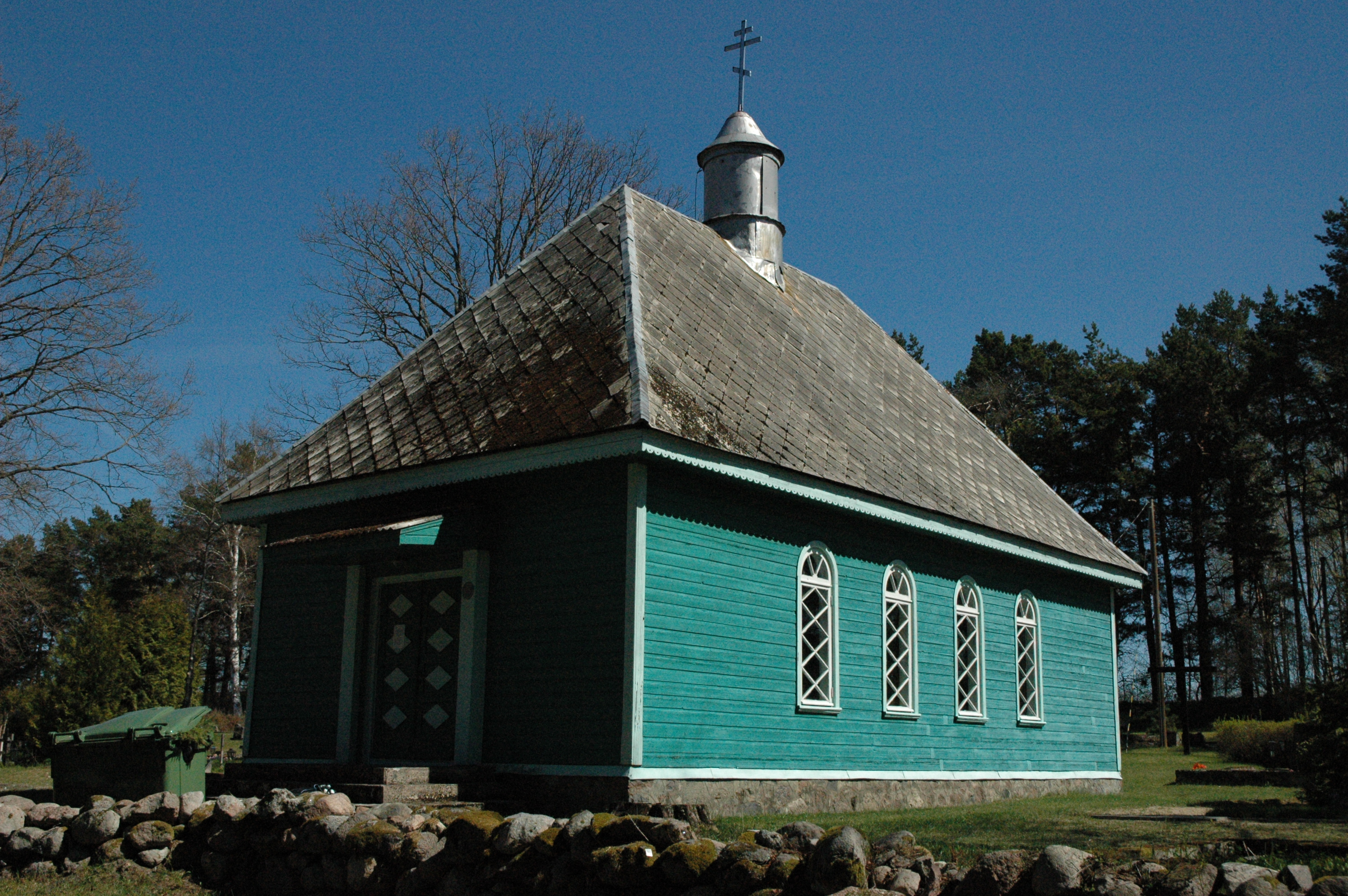 Treimani Greek Orthodox Church-Chapel